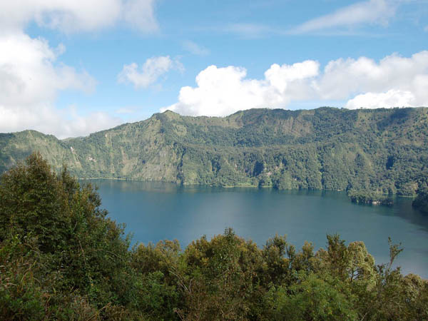 tukuyu